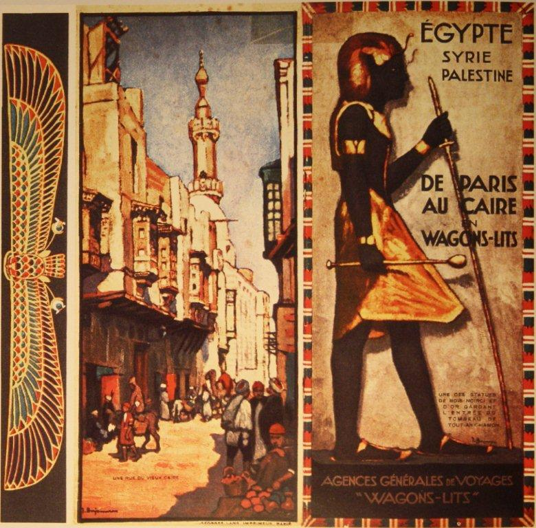 poster CIWL (c) wagons-lits diffusion, Paris